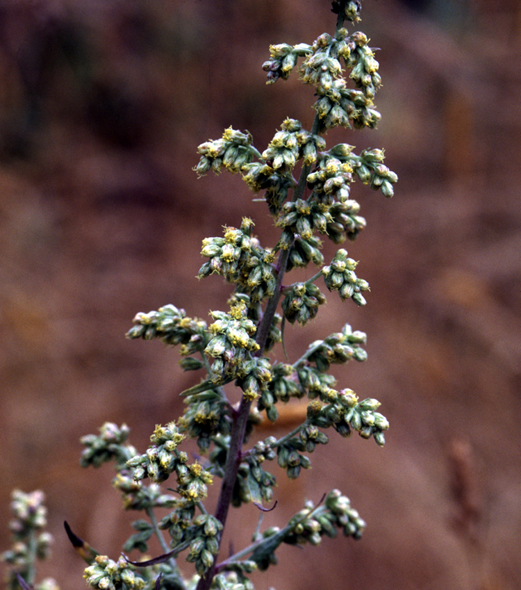 Artemisia ludoviciana — Silver wormwood. At the Humboldt Bay National Wildlife Refuge, Humboldt County, coastal Northern California.